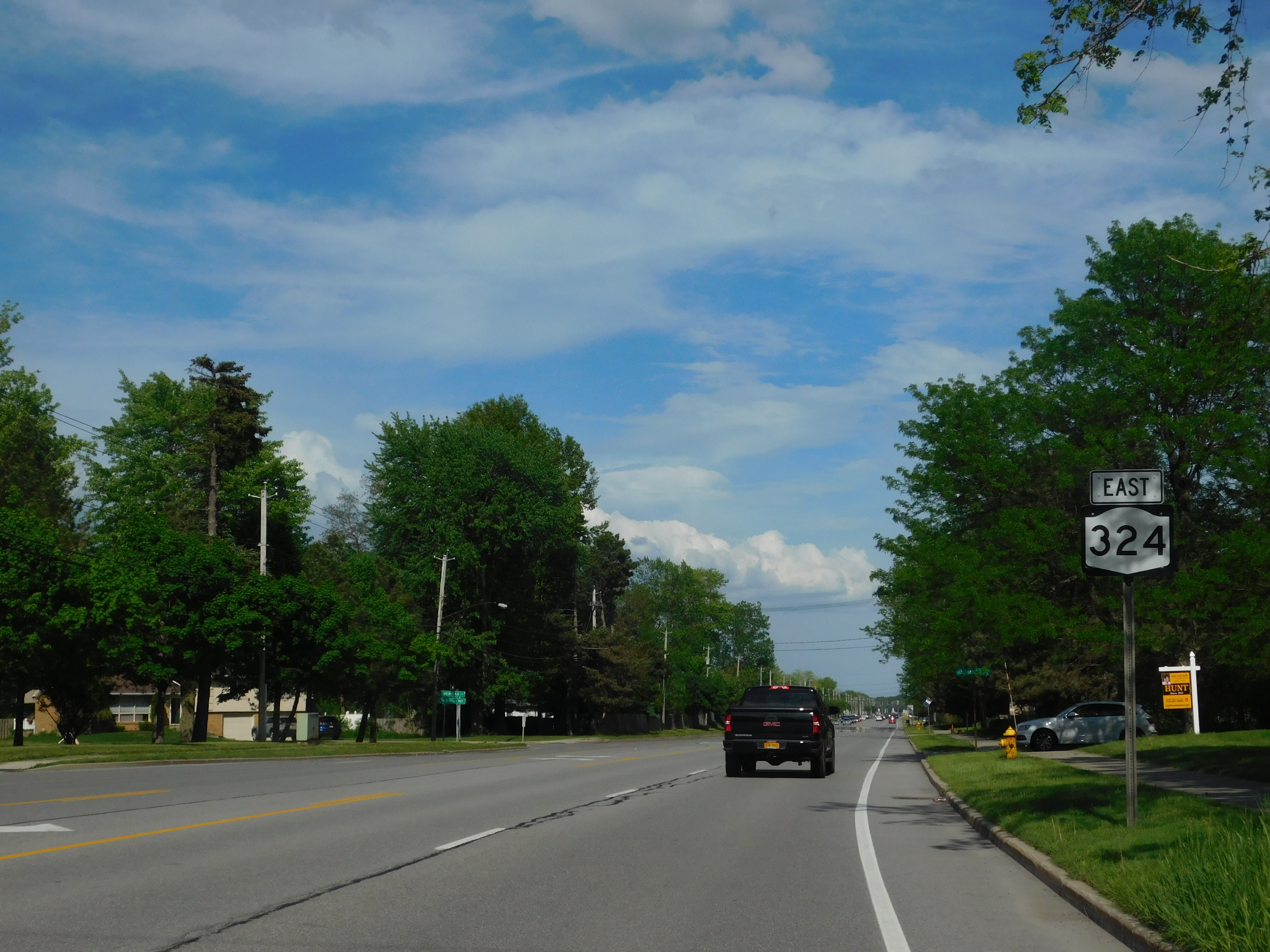 New York State Route 324 eastbound in Amherst, New York.